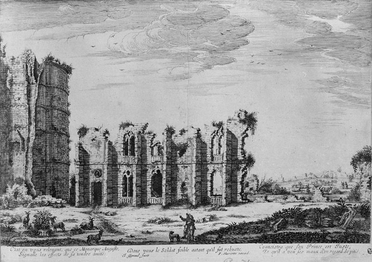 view of the ruins of the Castle of Bicêtre